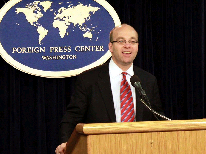 American political reporter Mike Allen, delivering a briefing on "A Point of View from the White House- How the Election Will Affect the Obama Administration's Agenda".